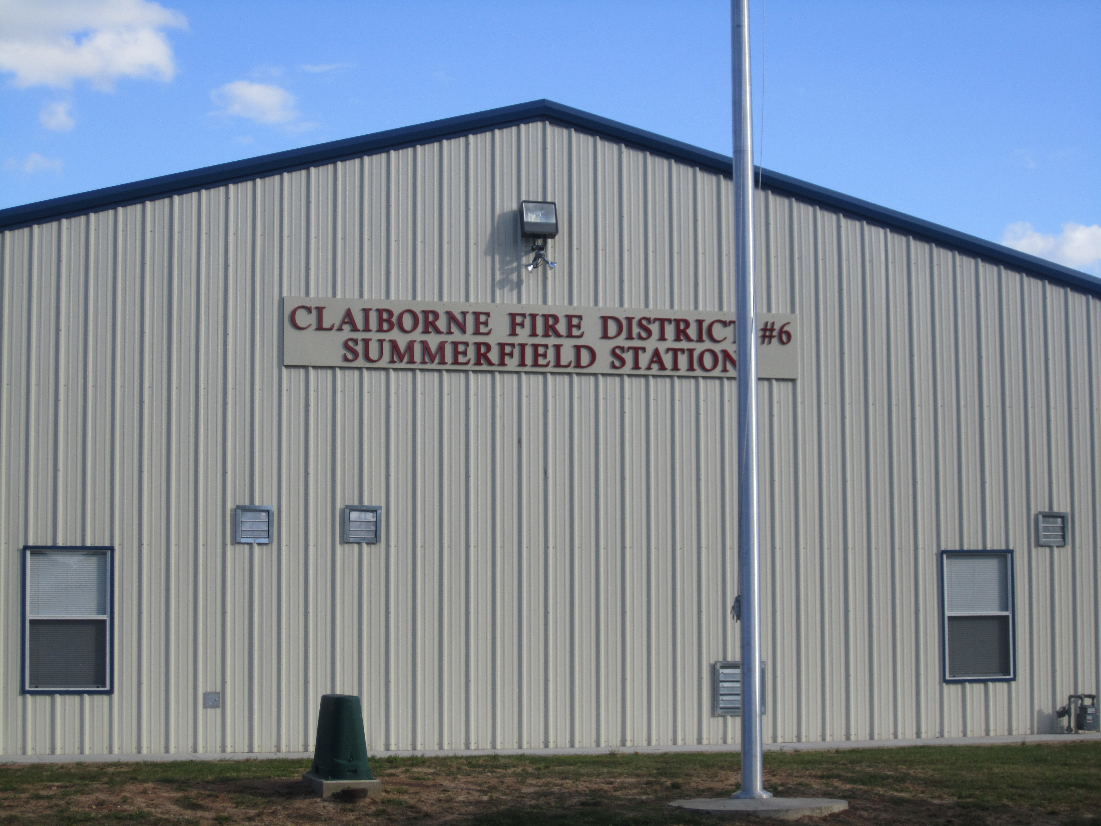 I took photo in Summerfield, LA, with Canon camera: Fire Station.